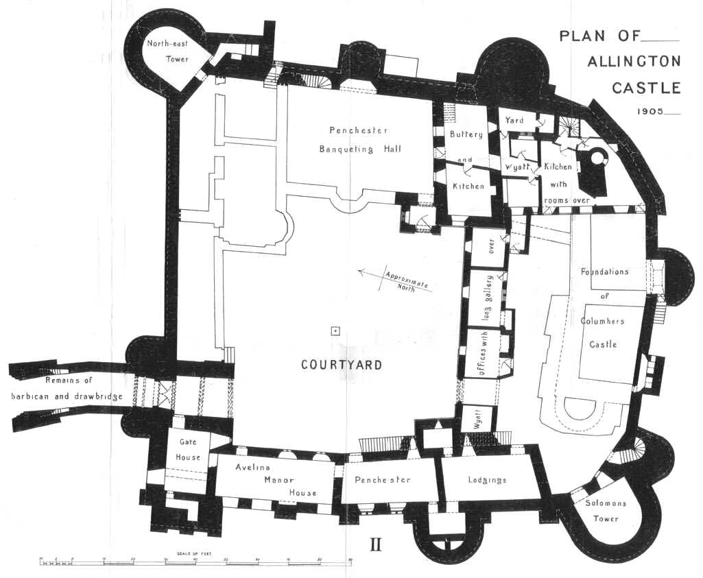 Plan of Allington Castle in 1906. From Archaeologia Cantiana, Vol. 28, 1909